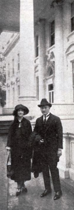 Director Thomas H. Ince and his wife Elinor Kershaw aka Nell Ince at the White House, on page 33 of the June 17, 1922 Exhibitors Herald.